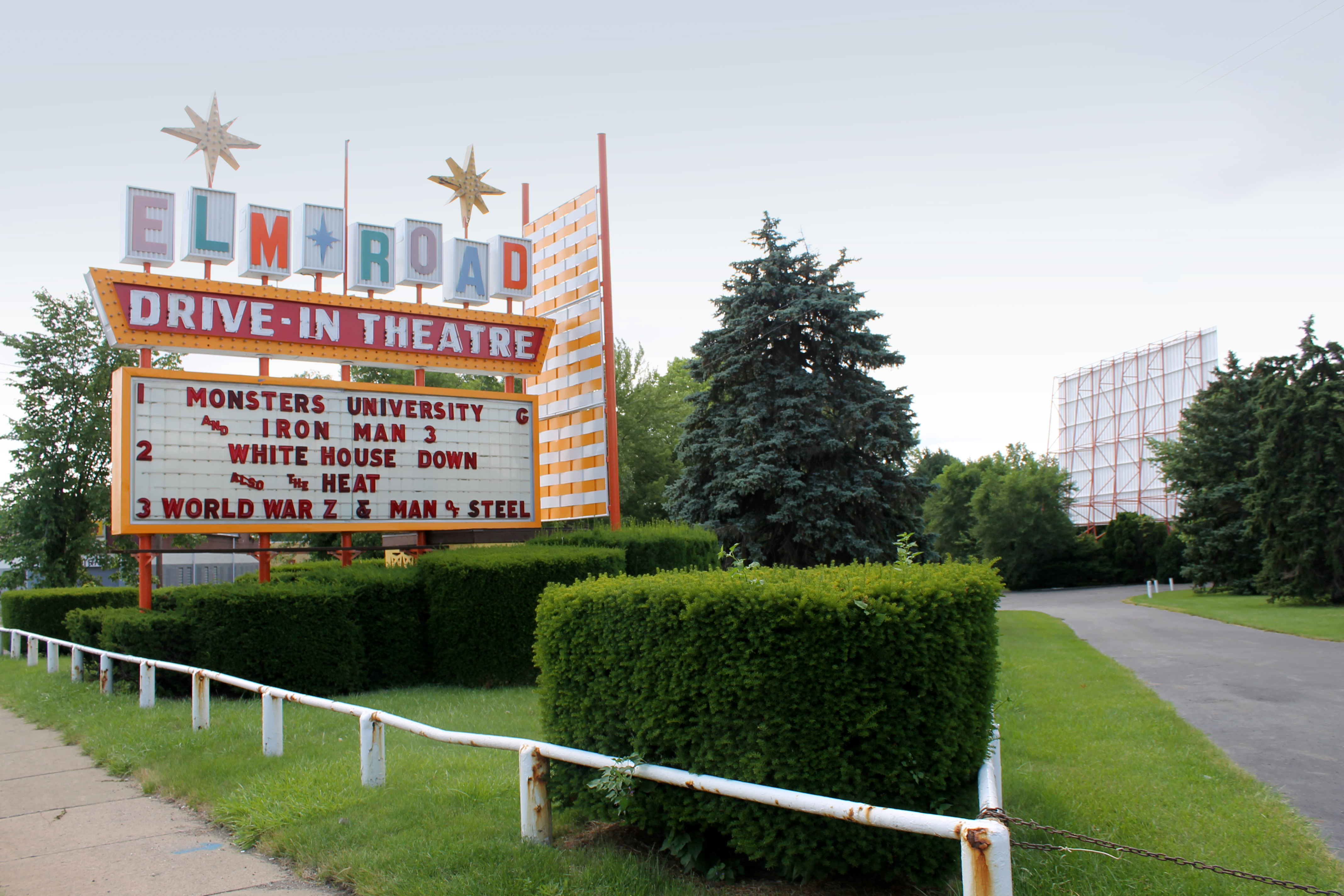 ELM ROAD TRIPLE DRIVE-IN THEATRE 1895 Elm Rd. NE Warren, Ohio 44483 The Elm Road Drive-In Theatre was founded in 1950 by Stephen Hreno and wife, Mary and is now one of less than 400 remaining drive-in theaters in the U.S. On August 3, 1950, the drive-in opened its doors as a then typical single screen, outdoor movie theater. When the business passed to Steve's son Robert in the '70's, he first added a second screen in 1979. Then came FM stereo through the car radio and in 2005, a third big screen was added. You can find